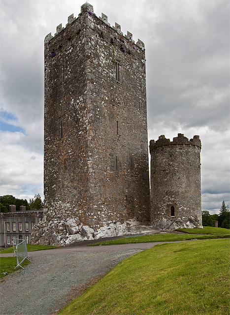 Castles of Munster: Drishane, Cork A MacCarthy tower house standing 72 feet high, and said to have been built in 1450, stands on a rock in the grounds of a former 18c/19c house of the Wallis family. They became the outright owners in 1728; it was they who added a parapet and a roof in the 19c, and also the adjacent circular tower.